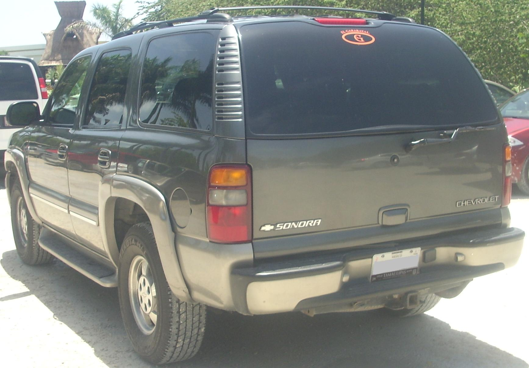 Chevrolet Sonora photographed in Cancun, Quintana Roo, Mexico